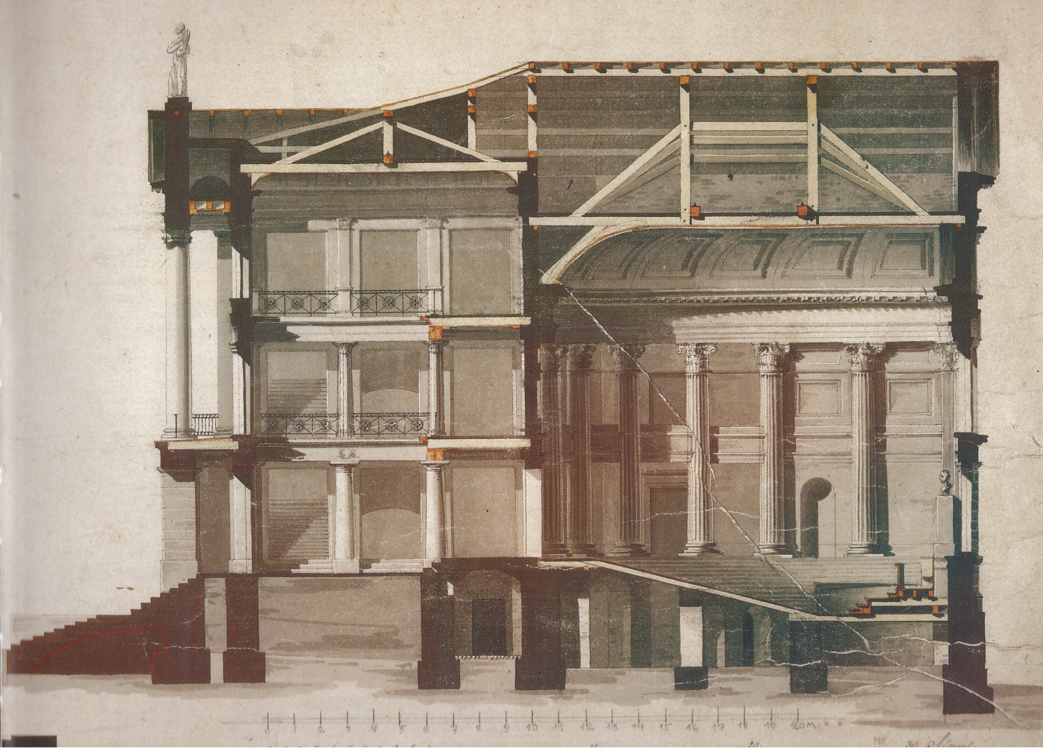 Helsinki University Main Building, section. Drawn by Carl Ludwig Engel in 1828.